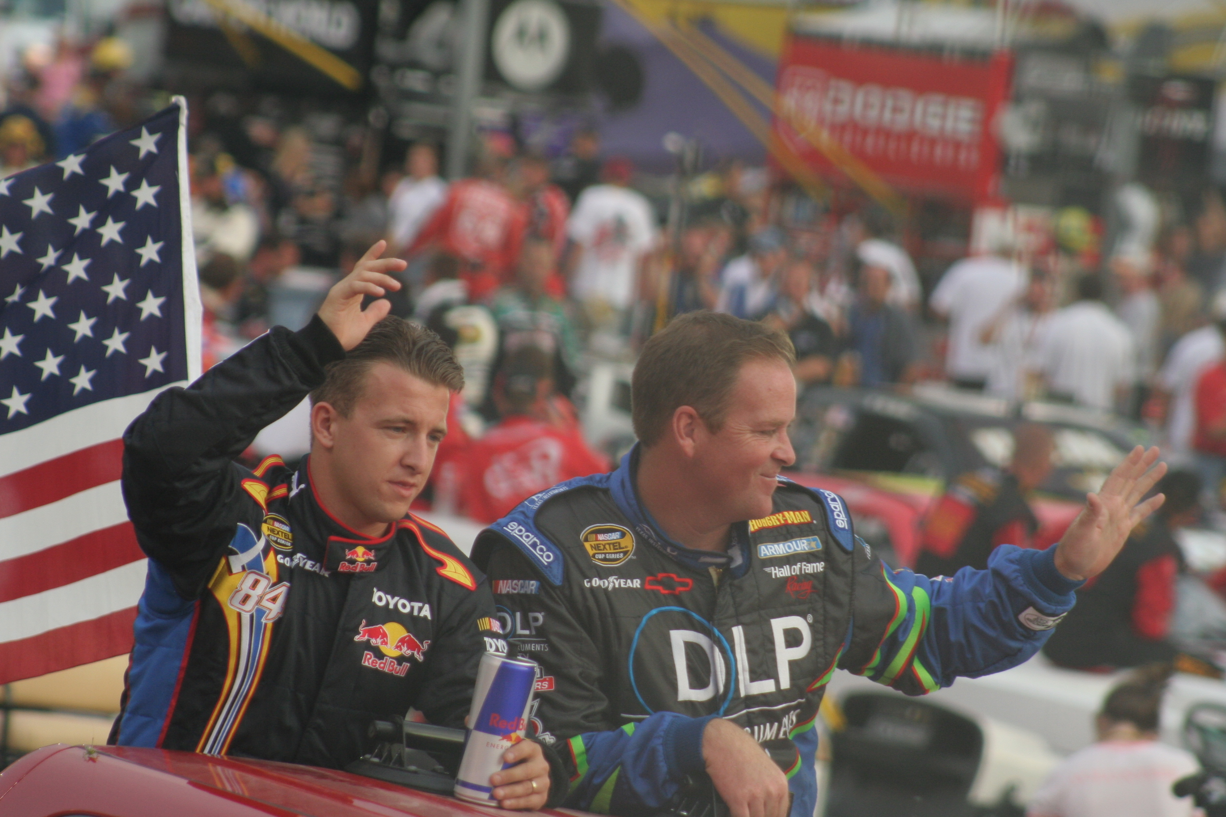 NASCAR drivers A. J. Allmendinger and Tony Raines before the August 2007 race at Bristol Motor Speedway